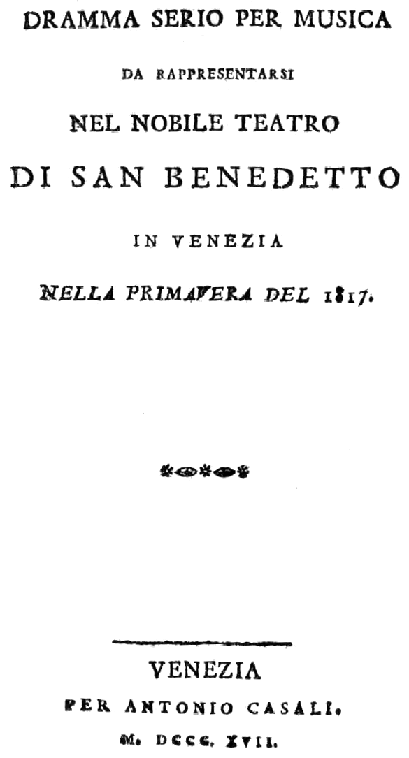 Gioachino Rossini - Demetrio e Polibio - titlepage of the libretto - Venice 1817